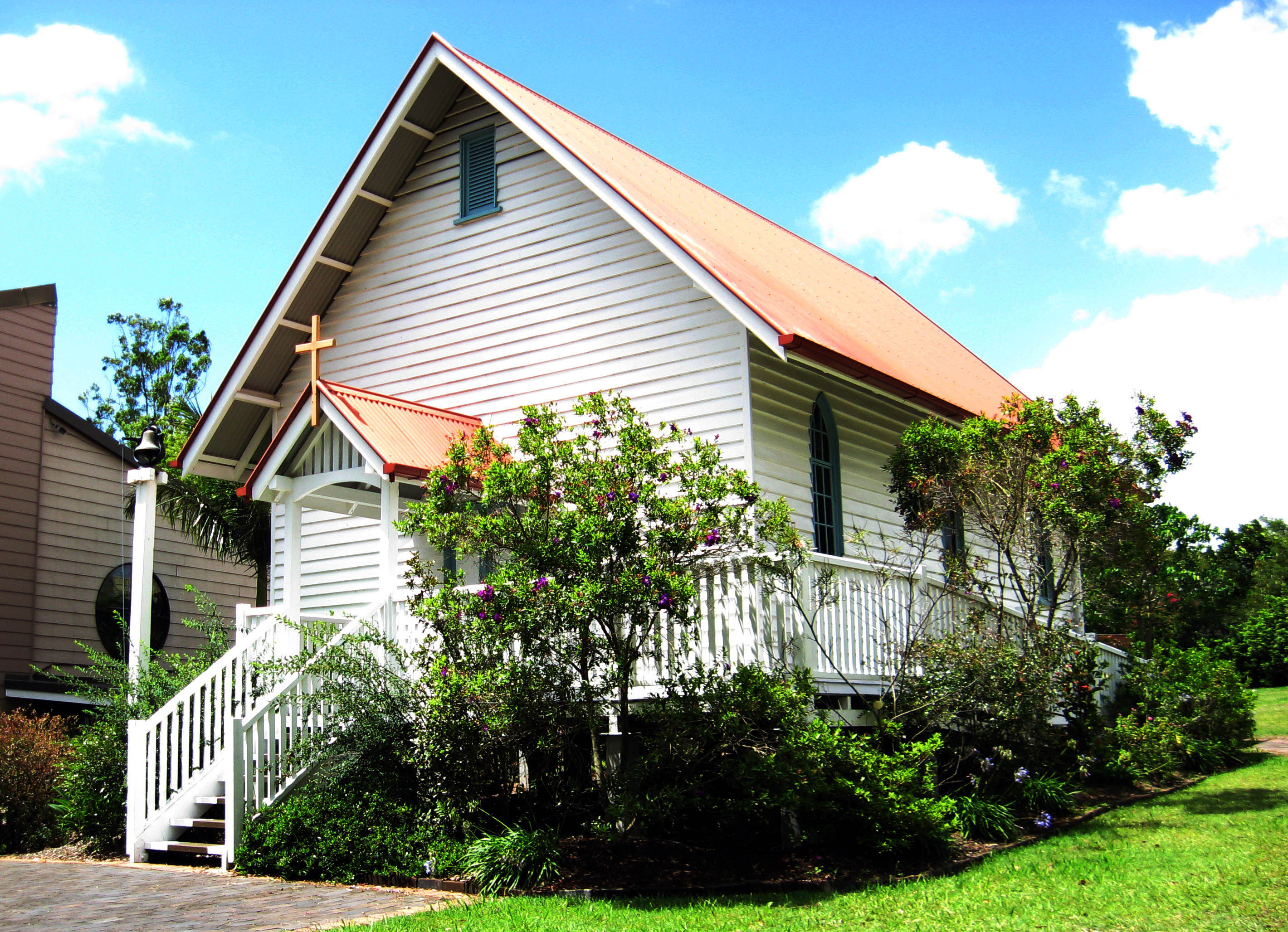 Old St Mark's Anglican Church situated along Winnetts Road at Slacks Creek / Daisy Hill, Queensland, Australia.